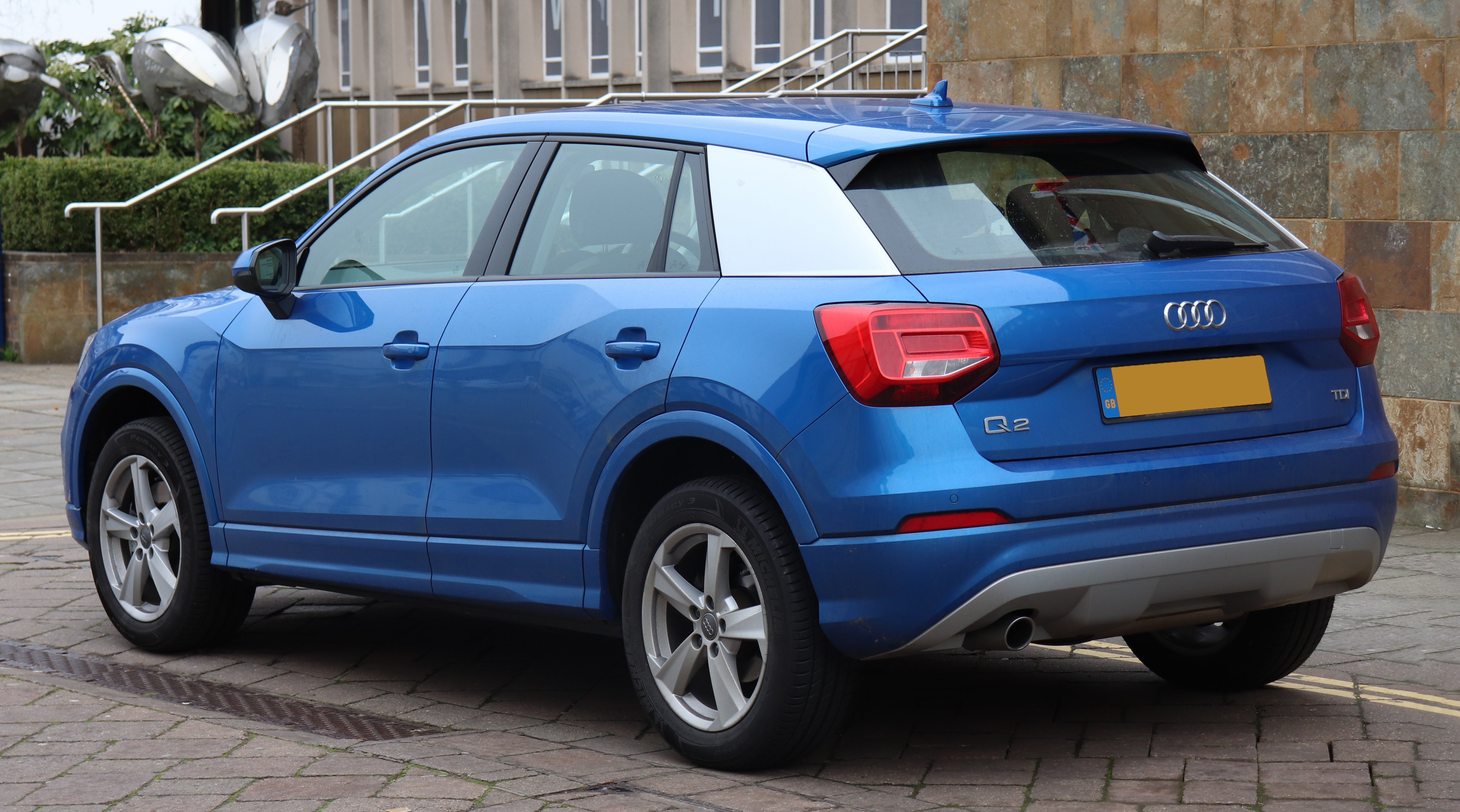 2017 Audi Q2 Sport TDi 1.6 Rear Taken in Warwick